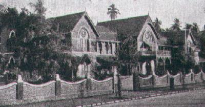 Photograph of Bombay Scottish School at Mumbai, India